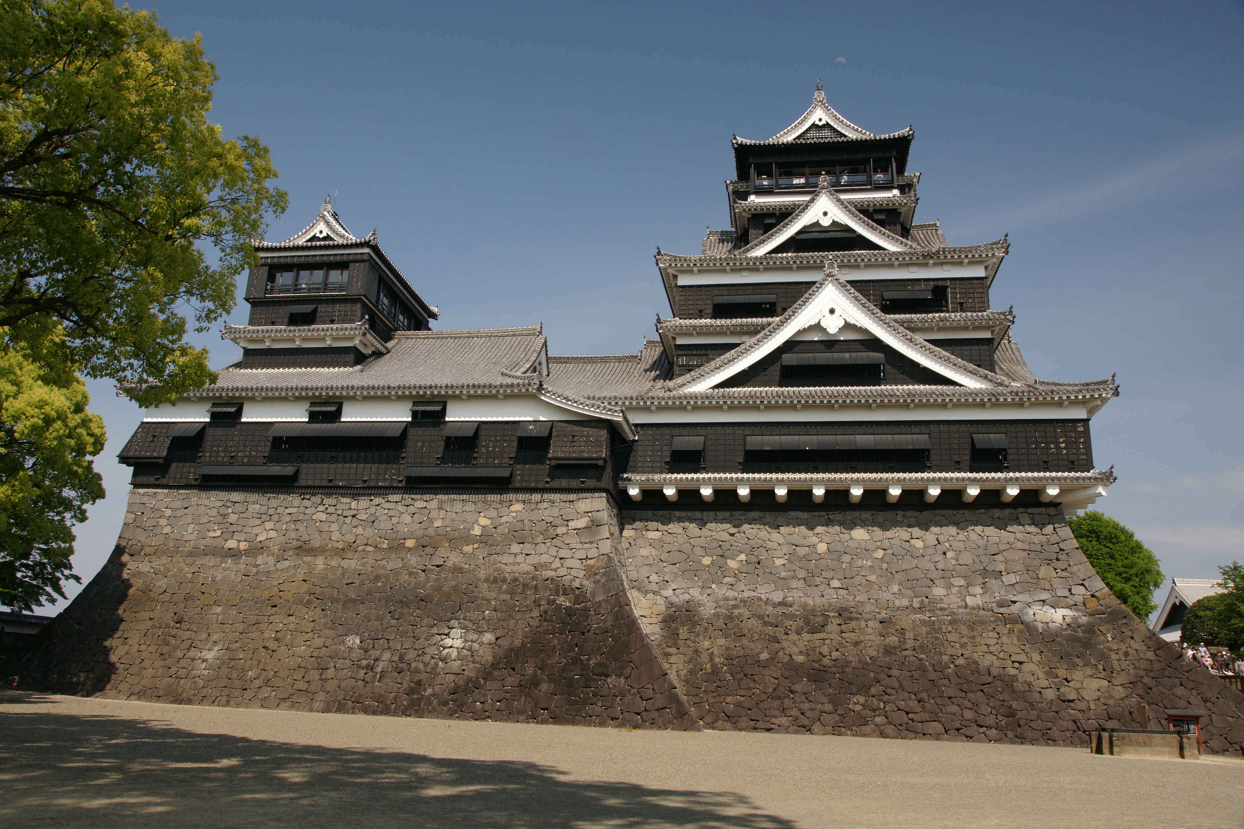 Kumamoto Castle, Kumamoto, Kumamoto prefecture, Japan